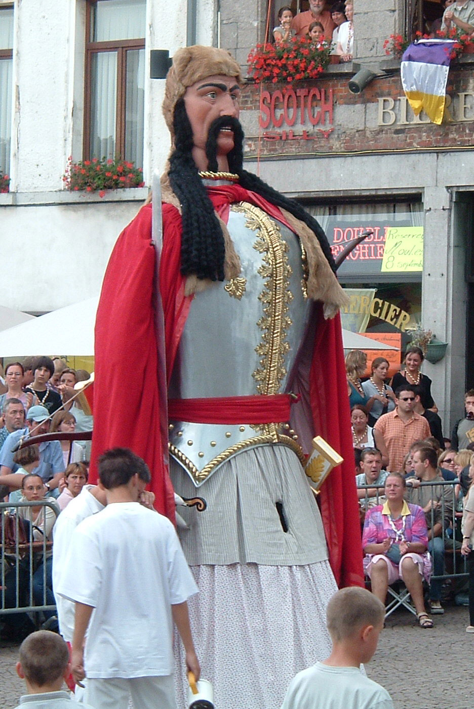 I made the photo myself, I release it into the public domain with no copyrights. - Daniel71953